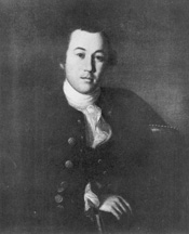 Henry Tazewell